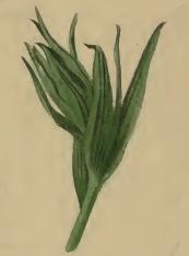 Stainton’s Natural History of the Tineina (1855–1873): Ochromolopis ictella a shoot of Thesium montanum drawn together by larva